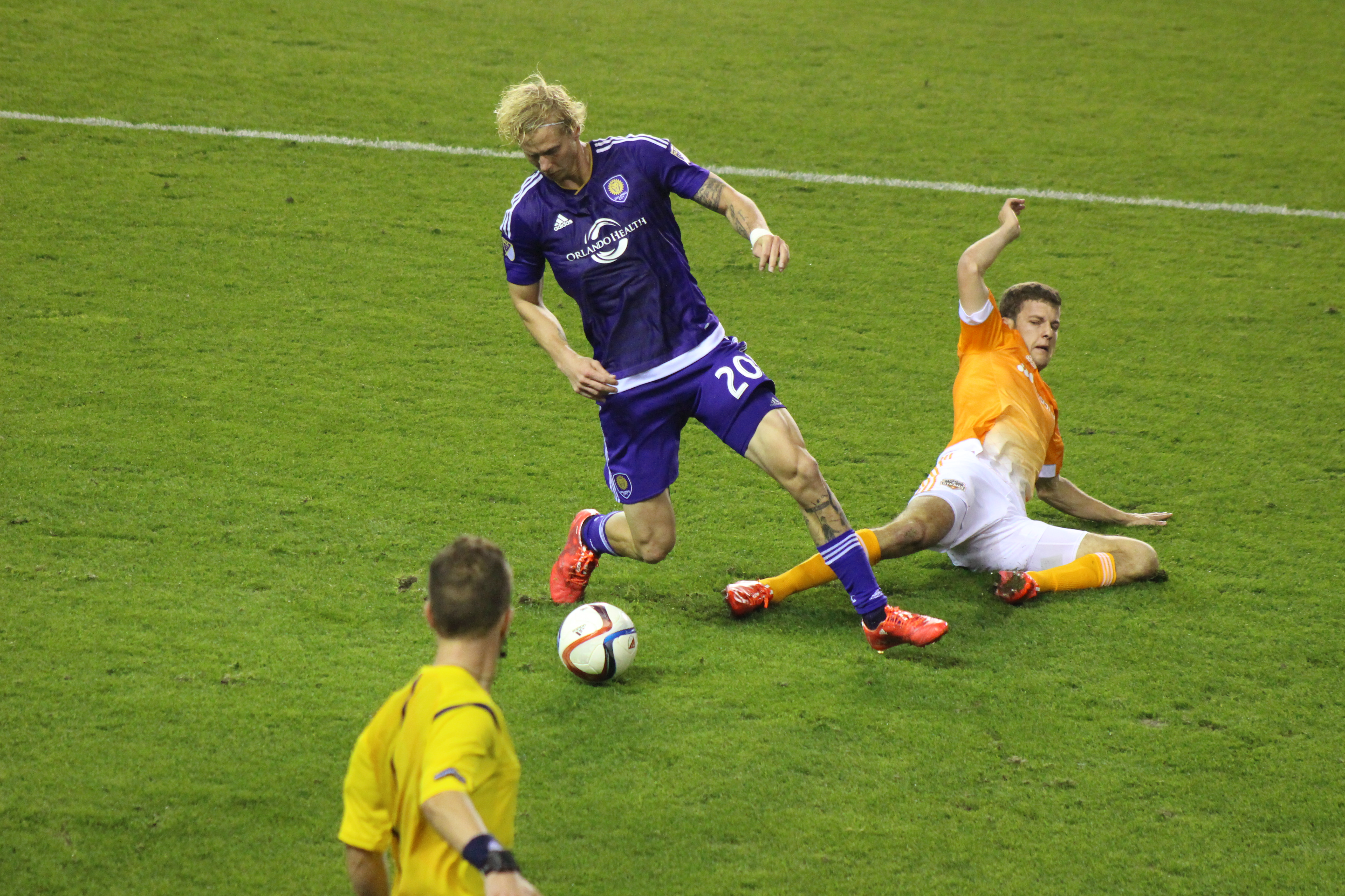 Orlando City's Break Shea (left) wins the ball from Dynamo rookie Rob Lovejoy (right)